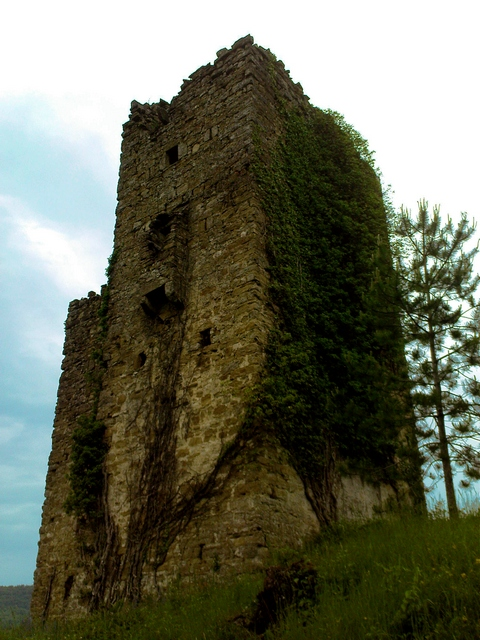 Ruins of Posert Castle in Istria, Croatia, on 13 May 2009, by Dinko Gubic.